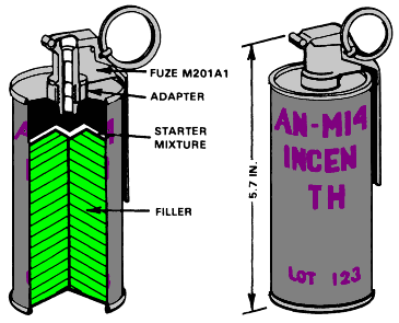 Drawing of an American AN-M14 incendiary grenade.